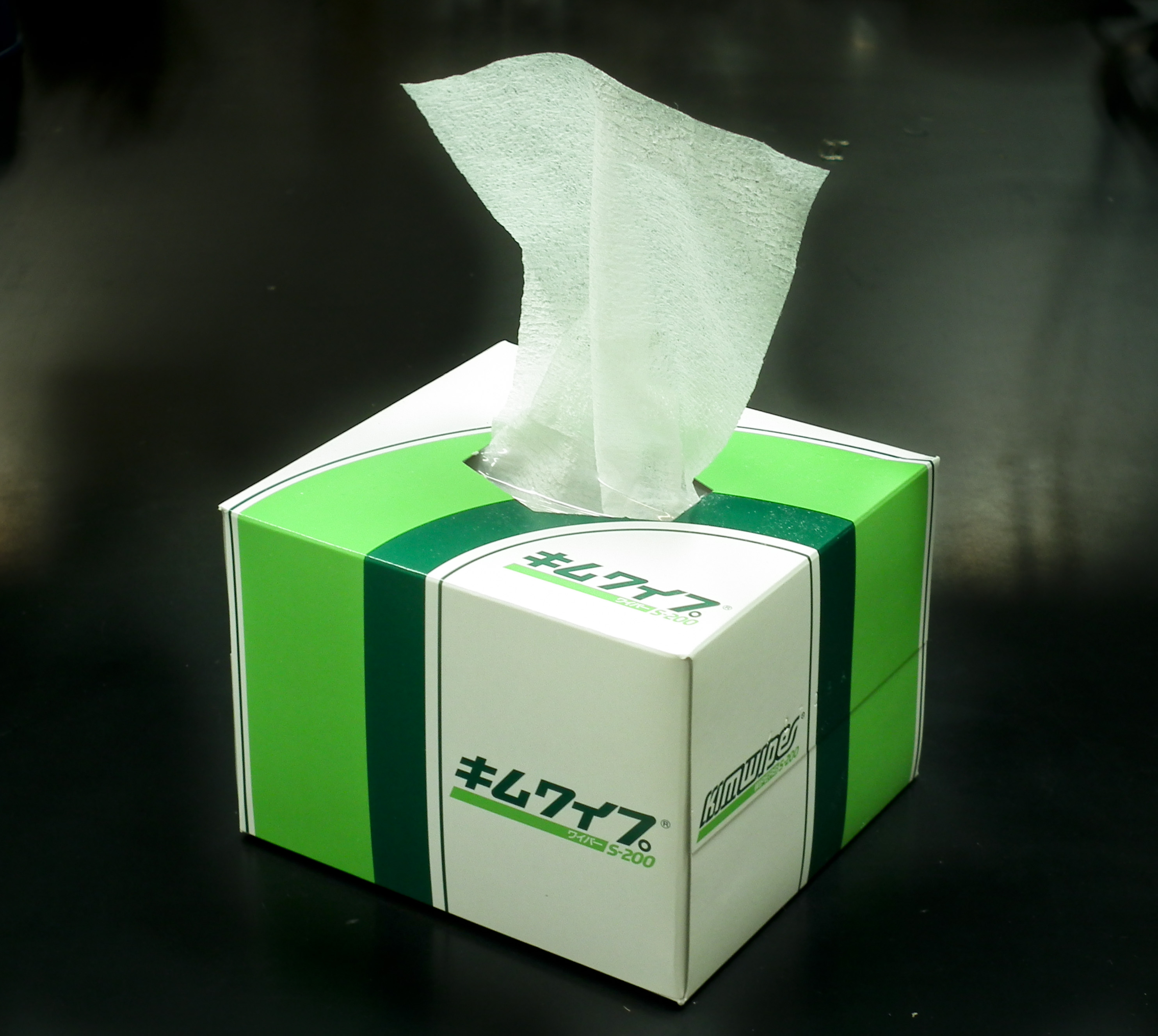 Cleaning tissue "KimWipe (S)"